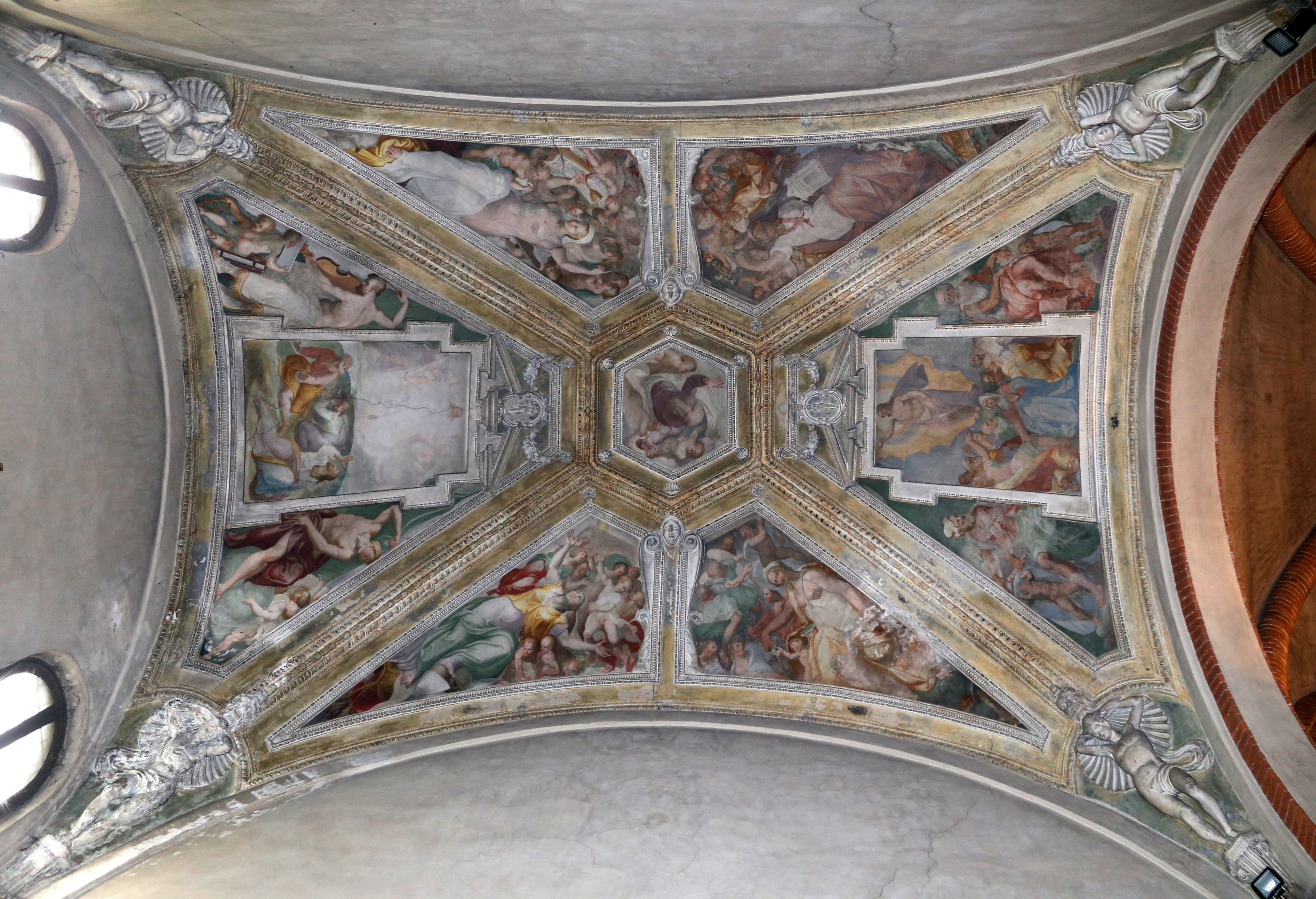 Sant'Eustorgio (Milan) - Chapels